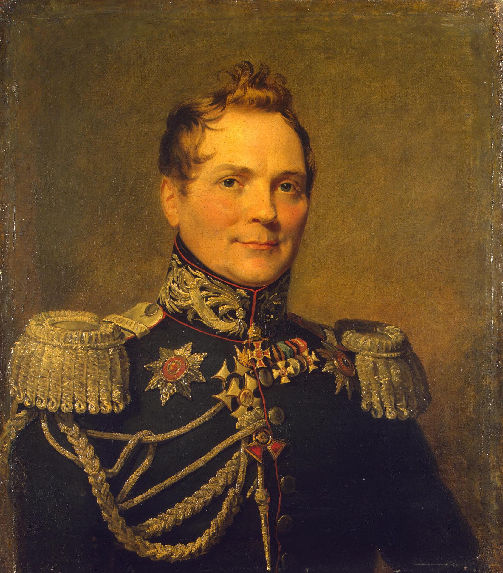 Portrait of Karl Wilhelm von Toll (1777-1842), an Imperial Russian general